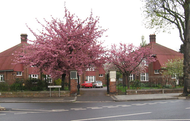 Cornwell Cottages, Hornchurch. These memorial cottages were named in honour of John Travers Cornwell (also known as Jack). In October 1915 he left his job as a delivery boy to join the Royal Navy. He was just 15 years of age. Having trained as a gun sight setter, May 31st of the following year found him as part of the crew of HMS Chester, and engaged in the Battle of Jutland. His ship came under heavy fire, with huge casualties. With all of his gun crew dead around him, and himself severely wounded, he stuck to his post awaiting further orders. The ship survived and John was taken to hospital in Grimsby where he died of his wounds on 2nd of June 1916. He was posthumously awarded the Victoria Cross, collected from King George V on his behalf by his grieving mother. There are many memorials to this brave boy all over the world. Including these lovely cottages. For detail of the memorial plaque on the left gatepost see 702895 by Dave K. To see a picture of his grave, go to 108928 by John Davies.